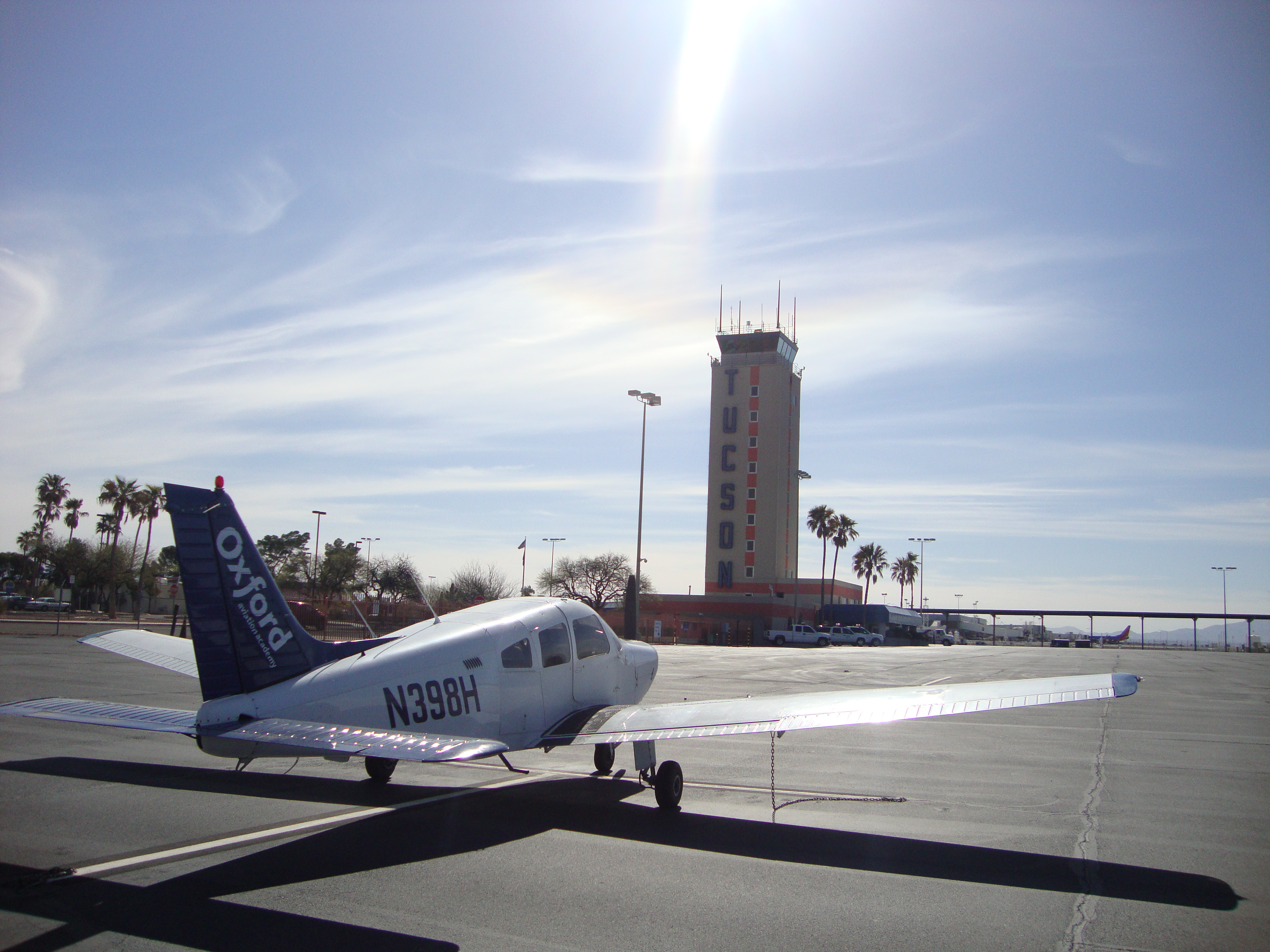 PA-28 Warrior II of Oxford Aviation Academy at Tucson International Airport